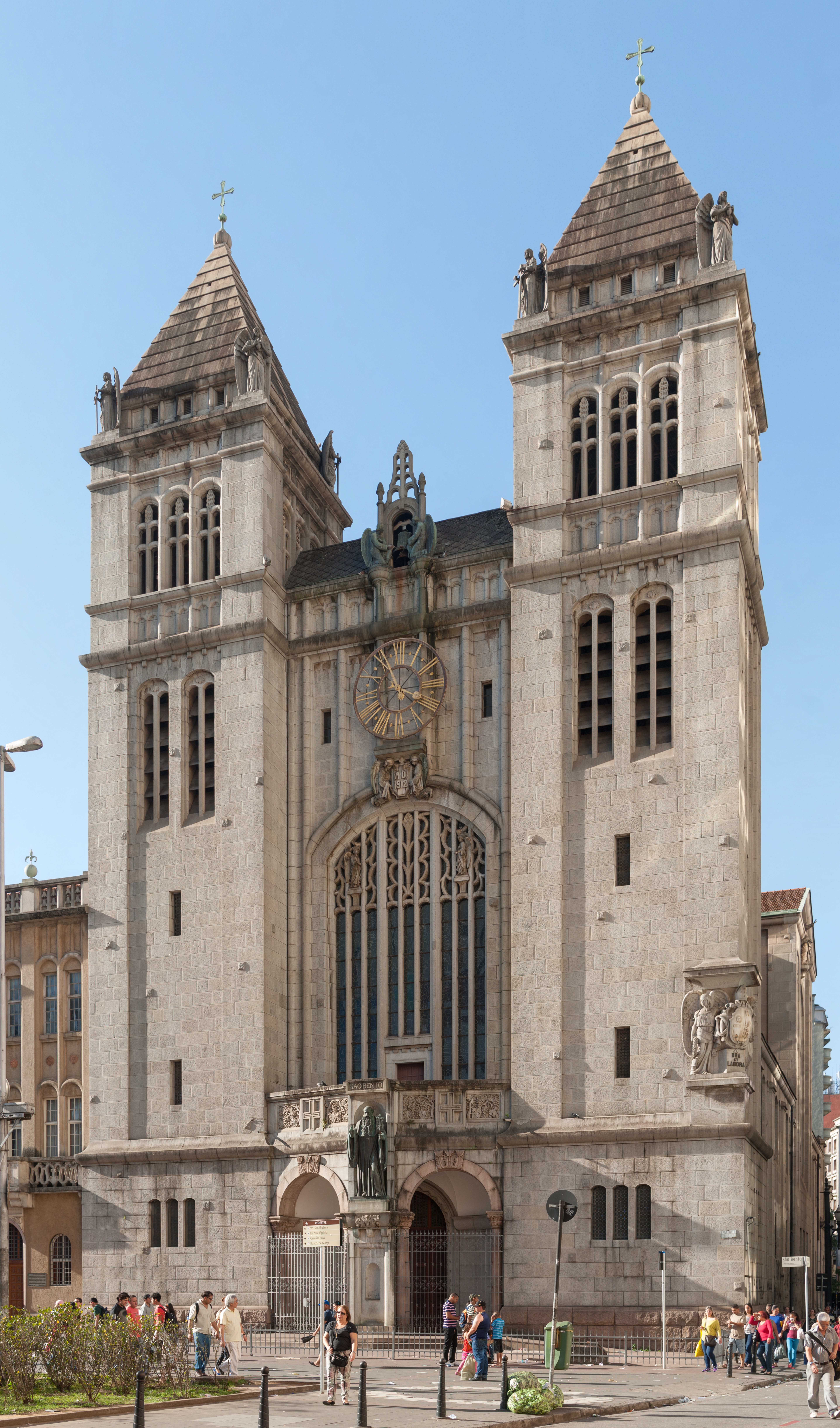 Monasterio de Sao Bento